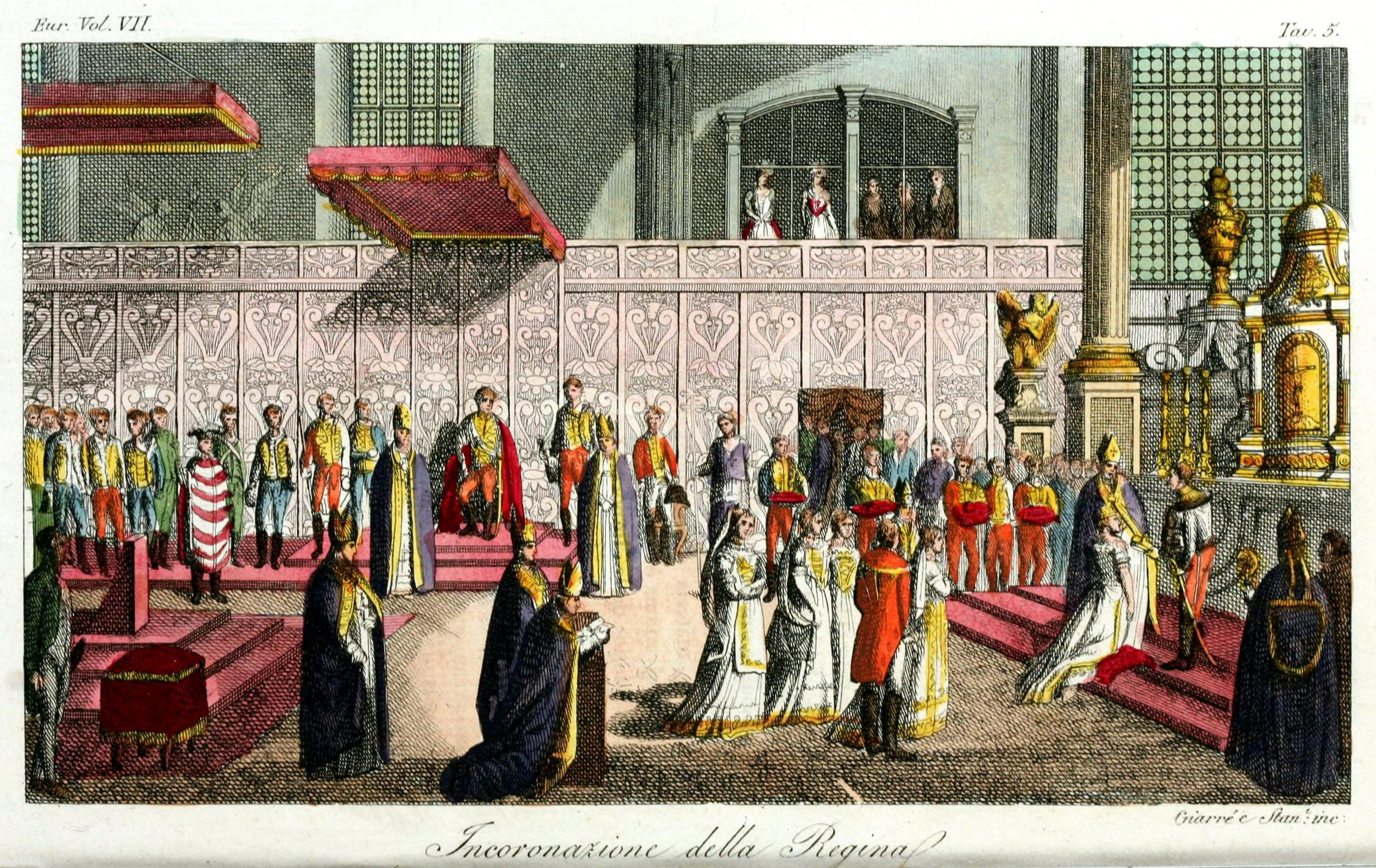 Coronation day of Mary of Hungary (reconstruction)